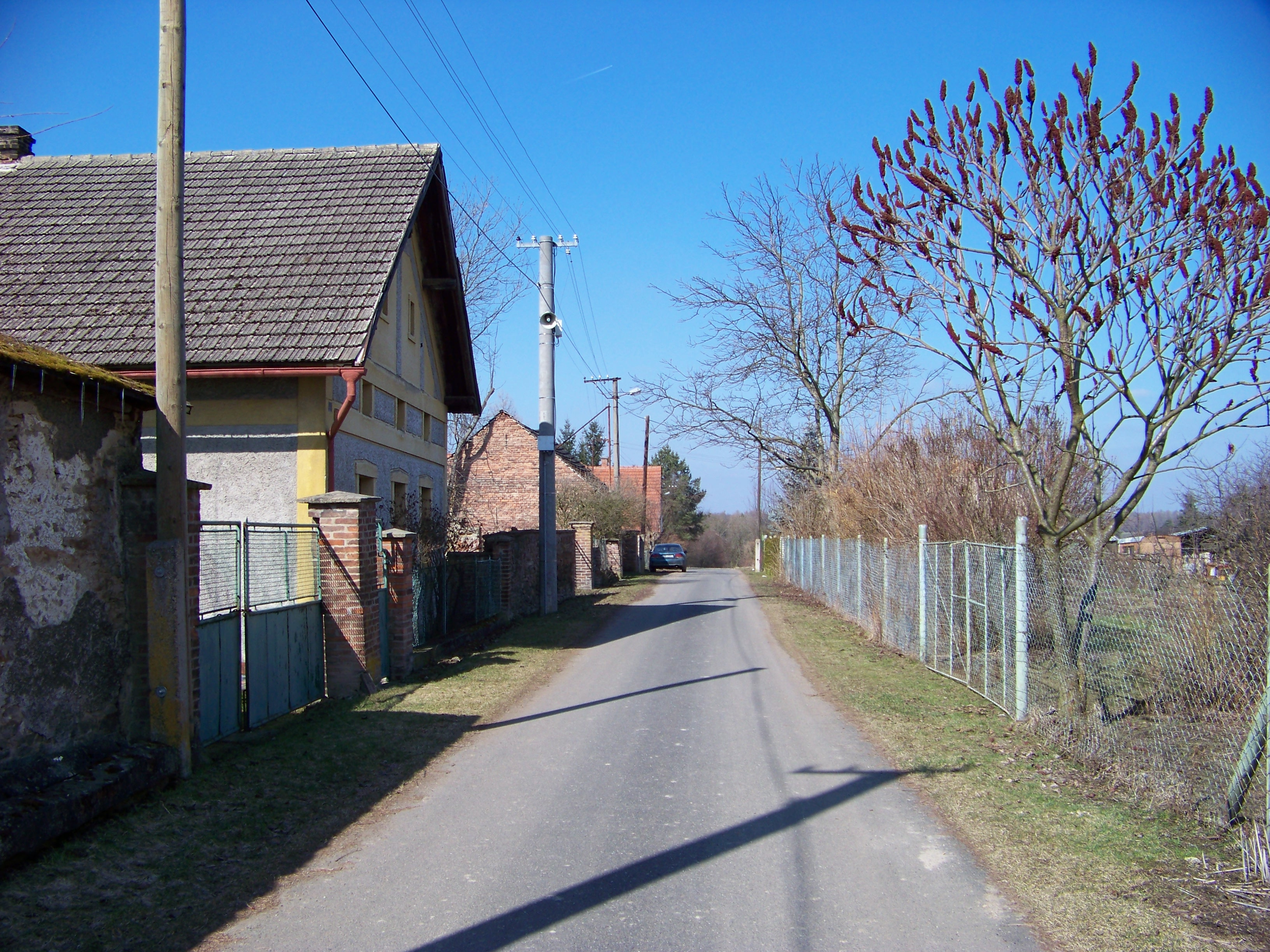 Malešov-Maxovna, Kutná Hora District, Central Bohemian Region, the Czech Republic. House No. 4.